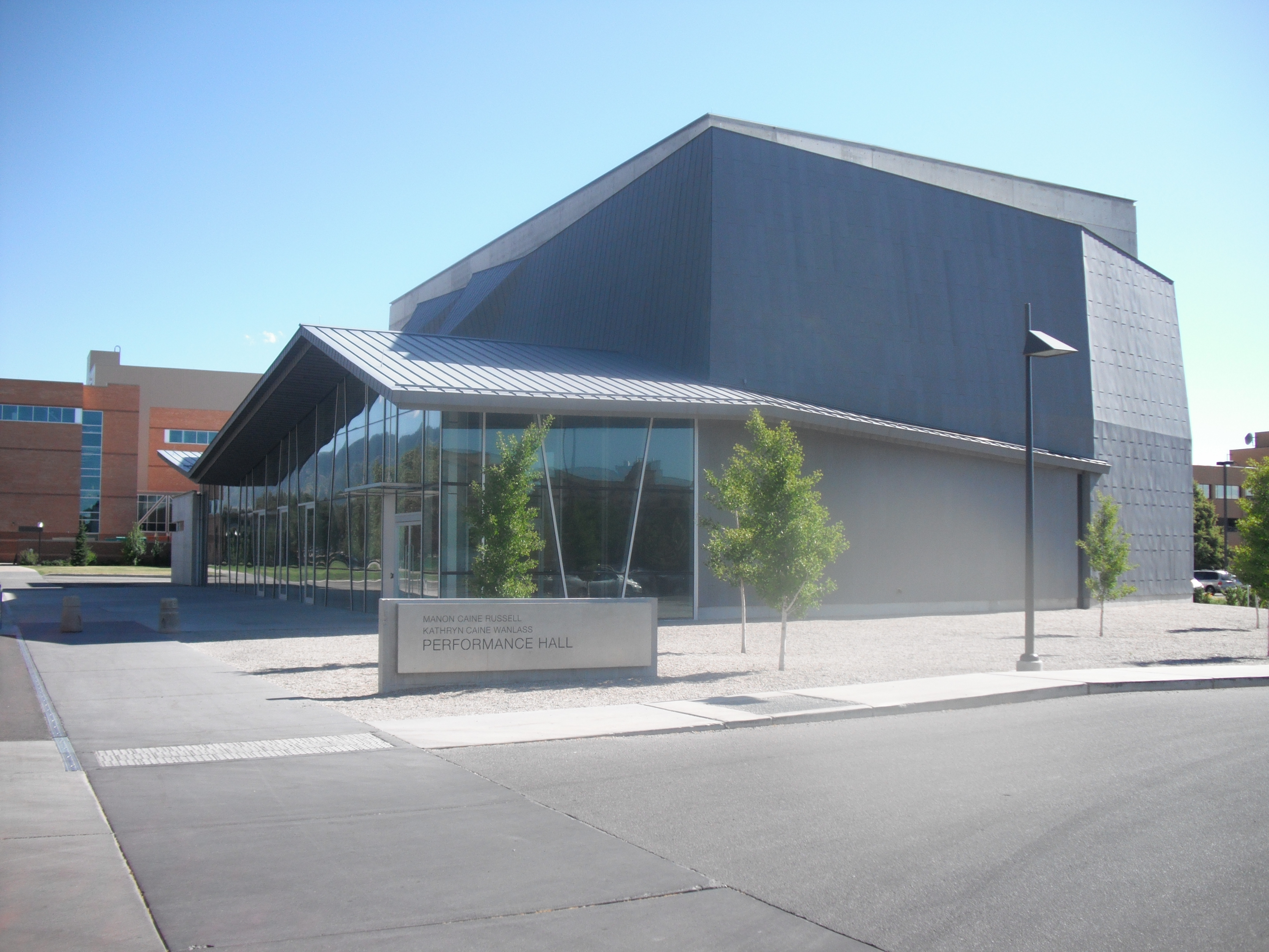 A view of the Manon Caine Russell performance hall at Utah State Unversity